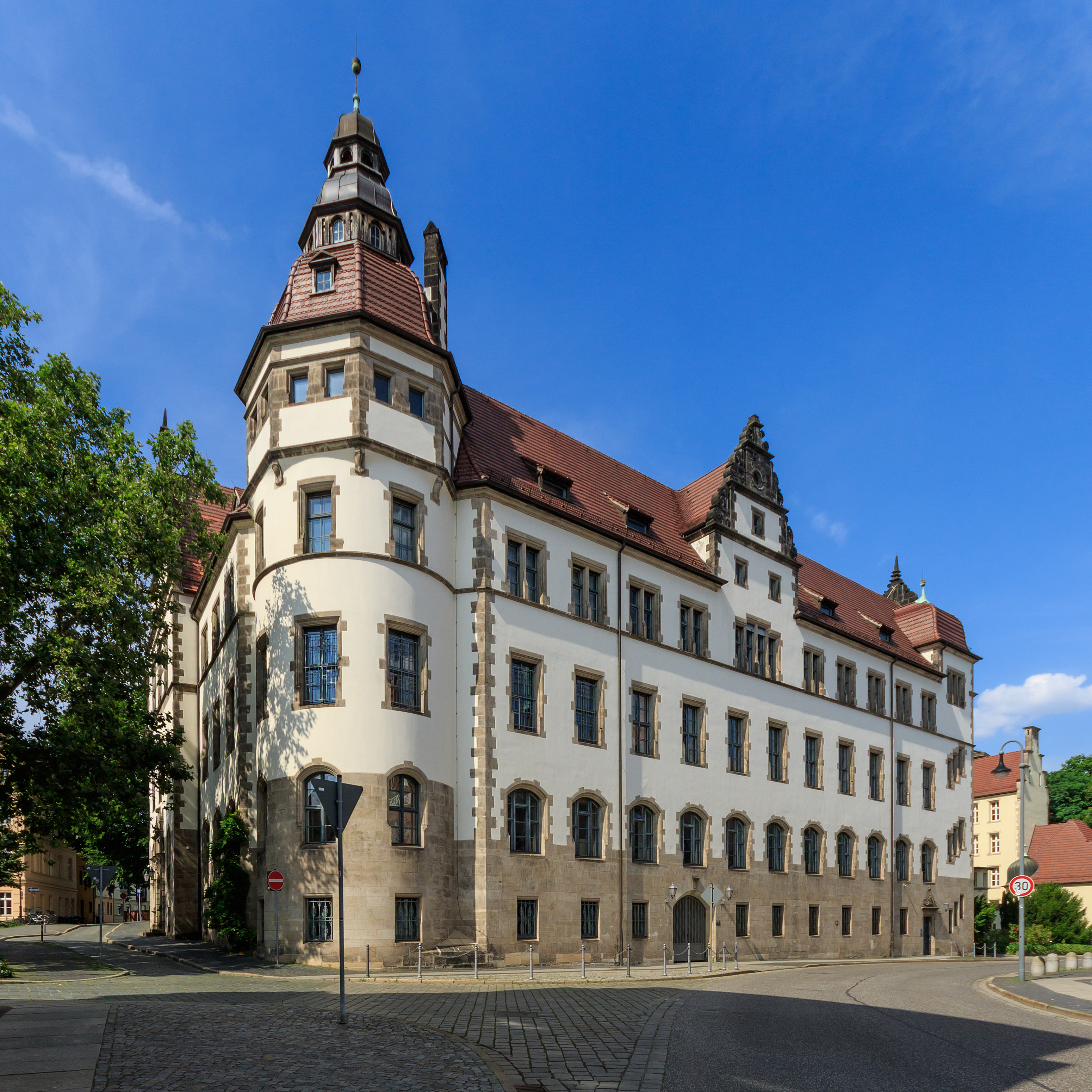 Lower courthouse in Cottbus (Germany)